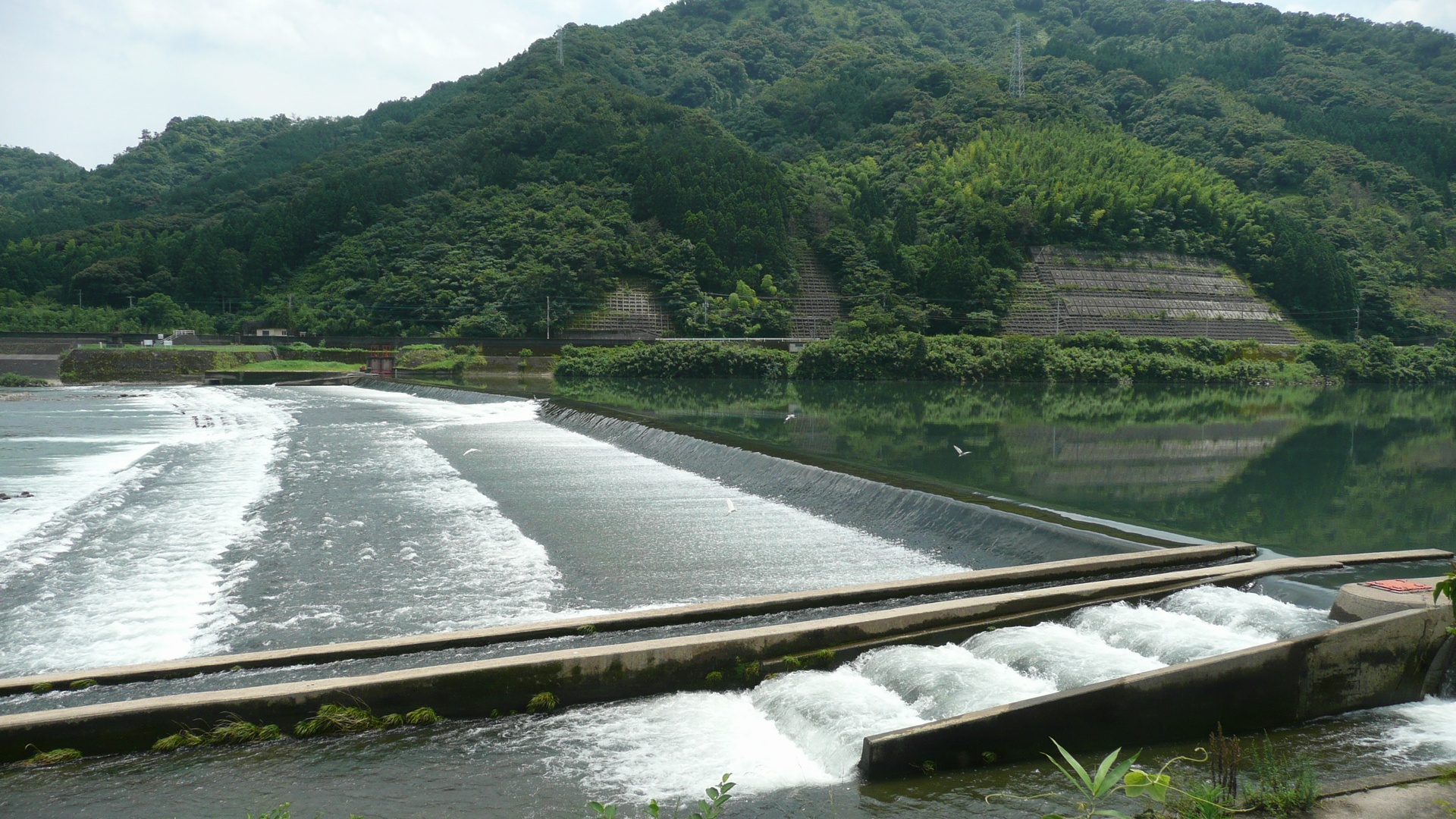 Iwaguma izeki Weir (River Gokasegawa - Nobeoka, Miyazaki, Japan)